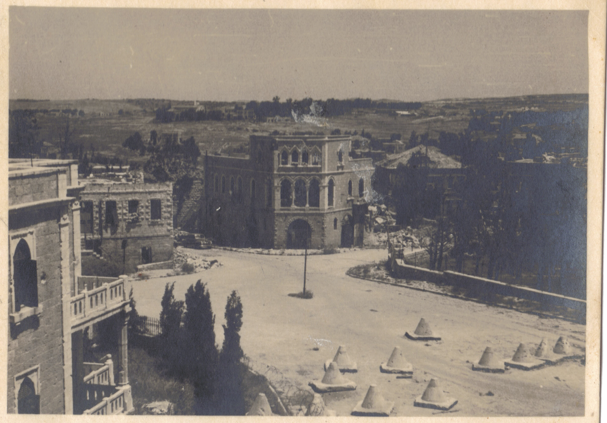 The area of the Mandelbaum Gate crossing, as photographed immediately after the cessation of fighting in the War of Independence in Jerusalem, at the beginning of May 1949